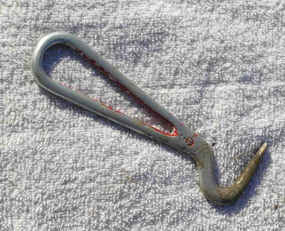 A simple hoof pick for removing dirt and rocks from the feet of horses need not be expensive or of complex design. This one is over 30 years old and still in use.